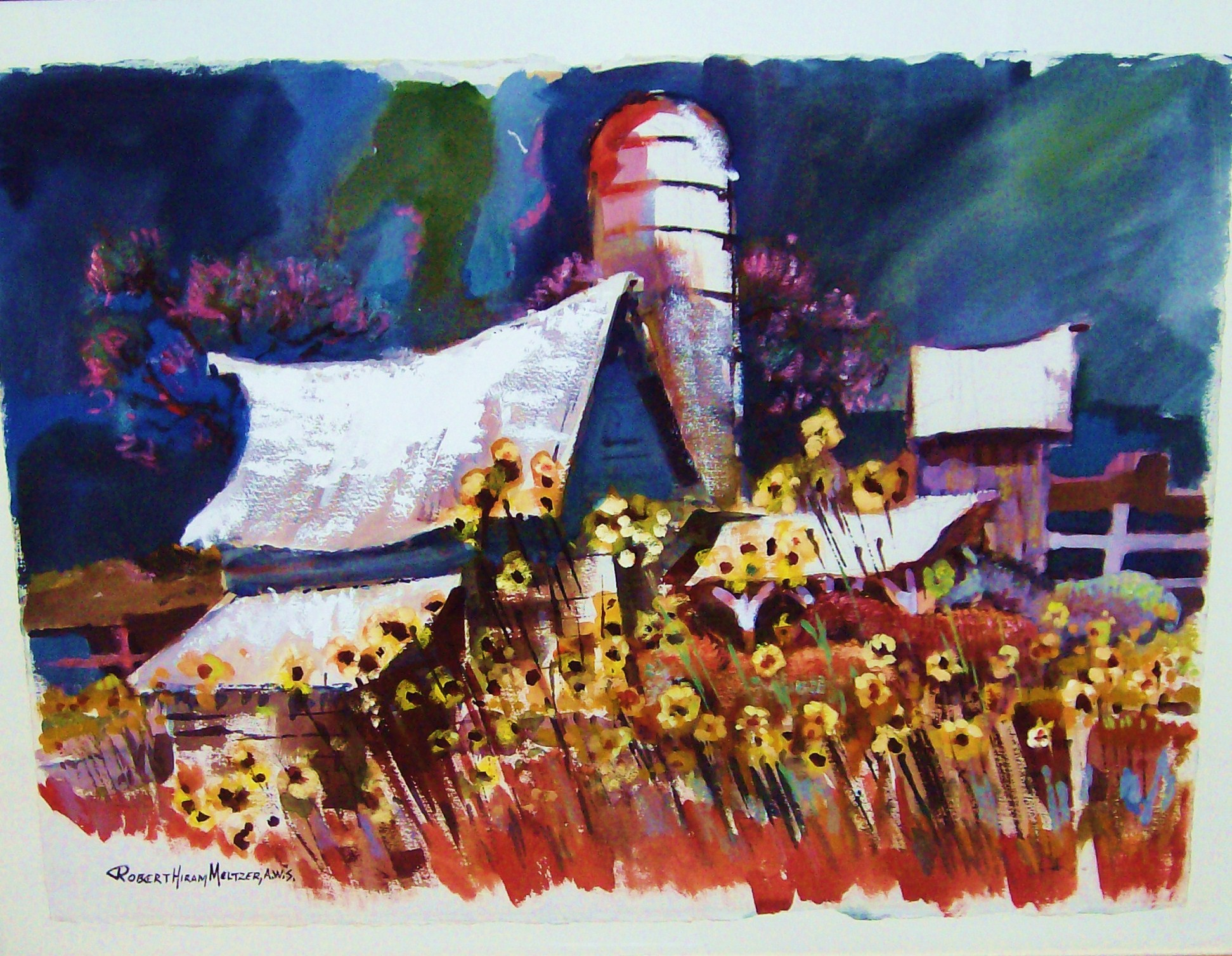 Robert H. Meltzer watercolor (American Artist, 1921 - 1987)